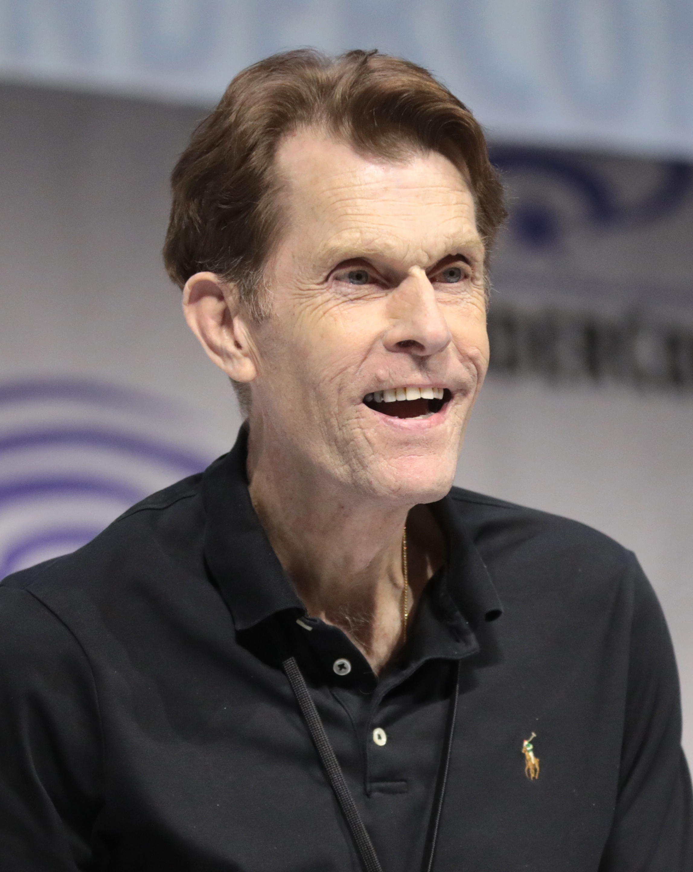 Kevin Conroy at the 2019 WonderCon in Anaheim, California.